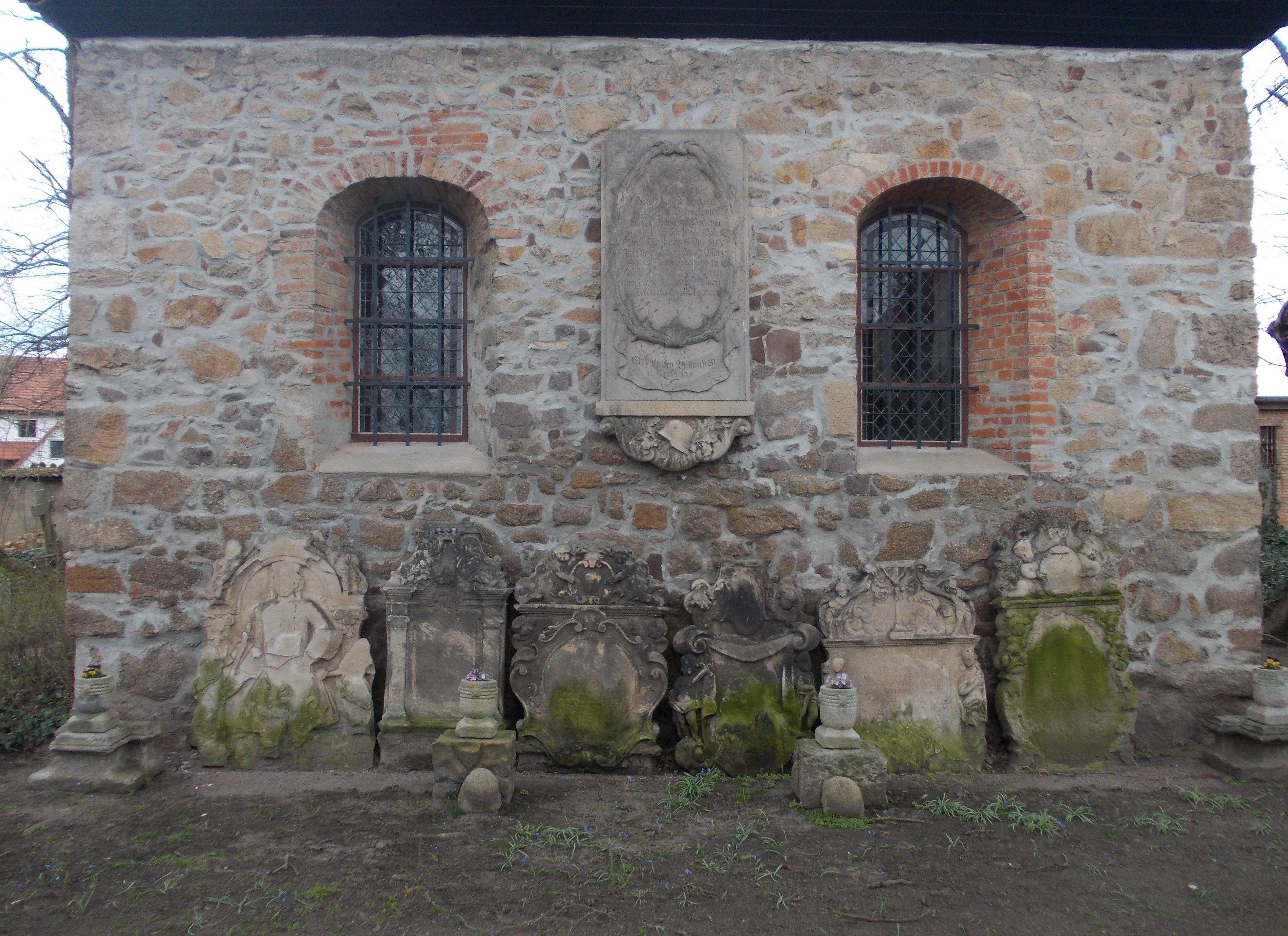 St. Nicholas' Church in Braschwitz (Landsberg, district: Saalekreis, Saxony-Anhalt), old gravestones